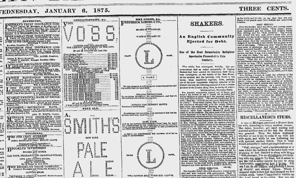 A portion of the Brooklyn Daily Eagle, January 6, 1875 showing advertisements that include graphical elements made using type characters. Such character-based art is a precursor to ASCII art because the ASCII character-set was not established until much later, in the 20th century.